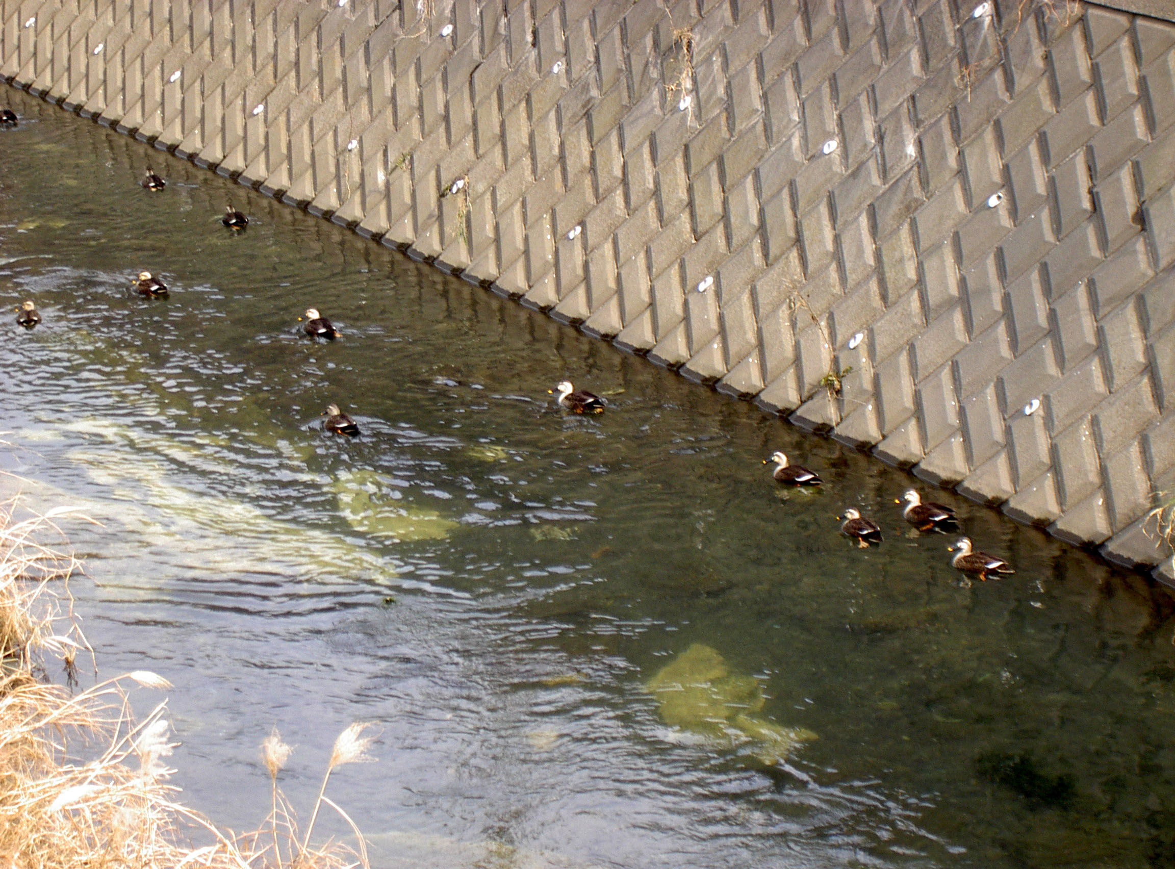 Eastern Spot-billed Ducks Anas zonorhyncha, in Mekujiri river, Kanagawa prefecture, Japan. ja: カルガモ - 神奈川県の目久尻川にて撮影。